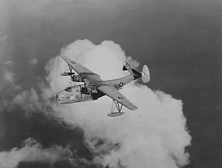 A Martin PBM Mariner flying boat (RAAF serial A70-12, registration VH-CPL) of No. 41 Squadron RAAF based at Cairns (Australia), in flight on 21 September 1944. The pilot was Flight Lieutenant Fox (411319) of Longueville, New South Wales (Australia), in the air at 2,400 m en route from Townsville to Port Moresby (New Guinea).